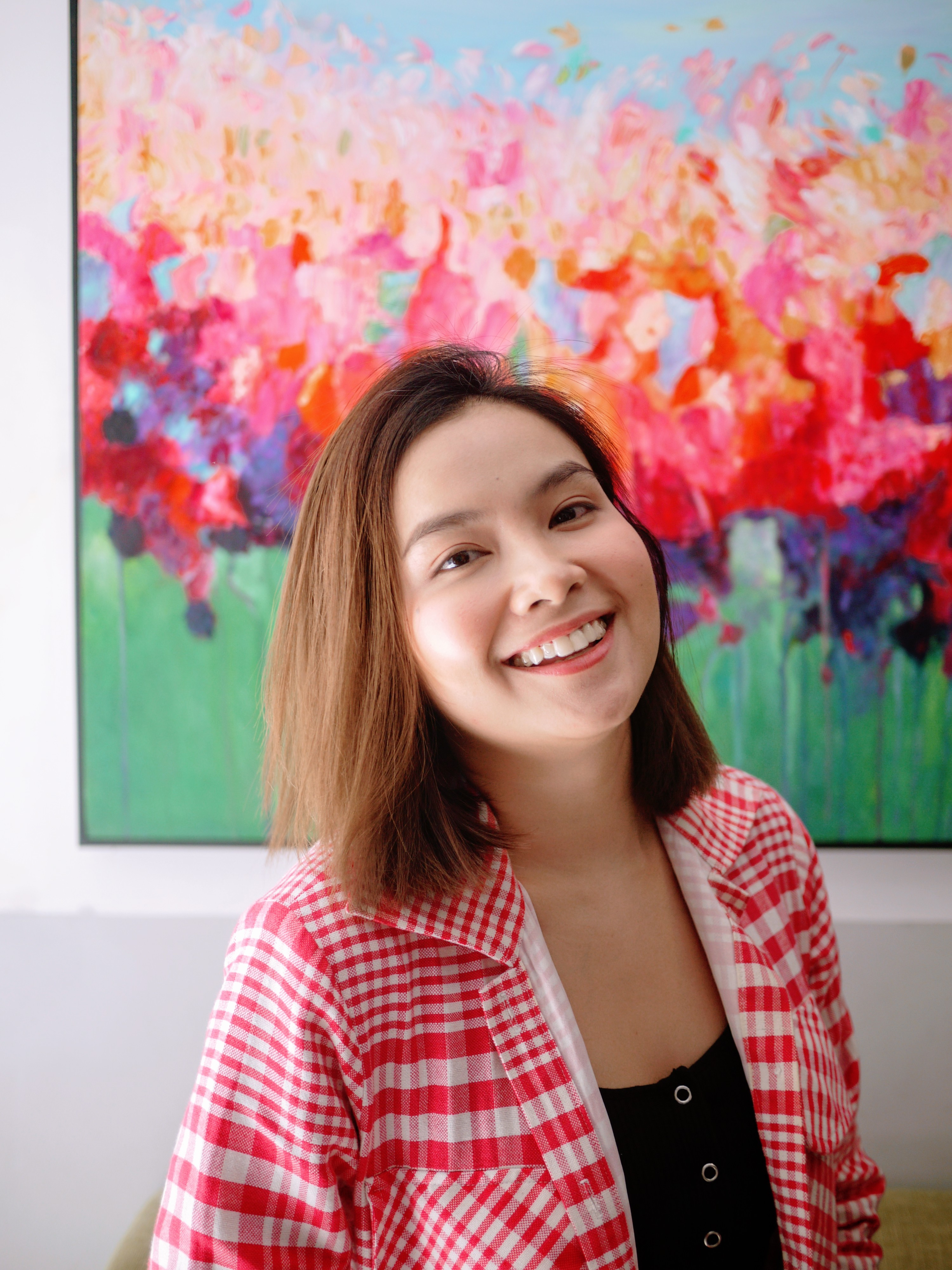 This is an image of Mean Sonyta, a Cambodian actress and fashion model based in Phnom Penh. This picture was taken at Story Coffee Roasters on Sihanouk Blvd., Phnom Penh.